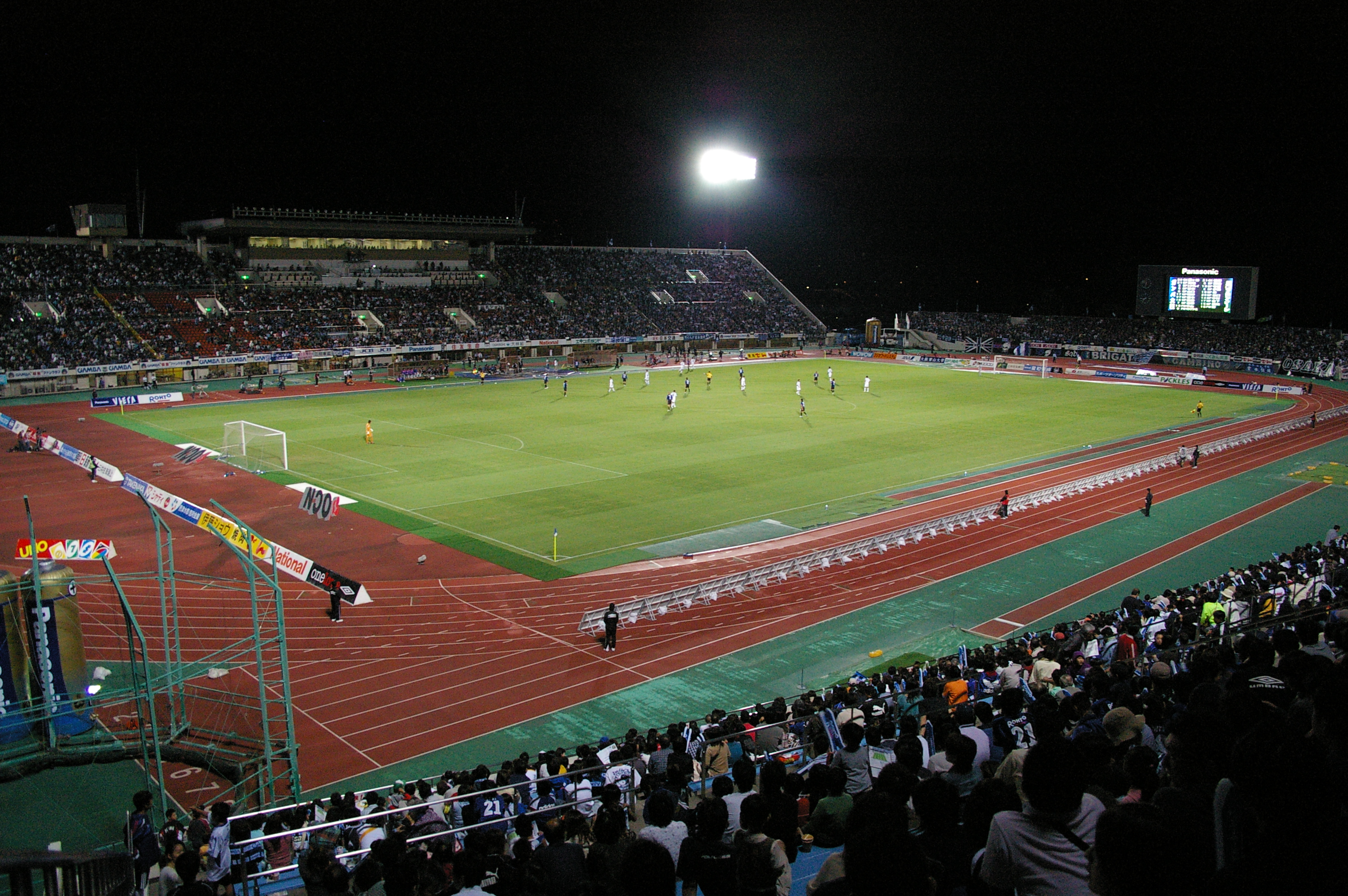 Banpaku-EXPO'70 Stadium. Osaka-Pref, Japan